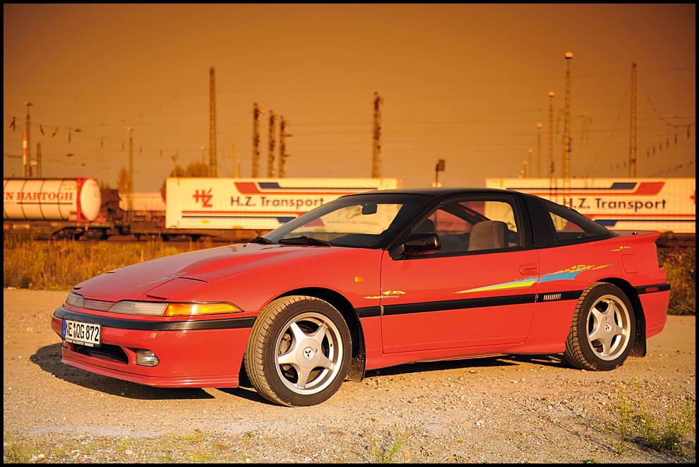 DSM Mitsubishi Eclipse GSi 2000GT, D22A, special edition GT, build in 1994